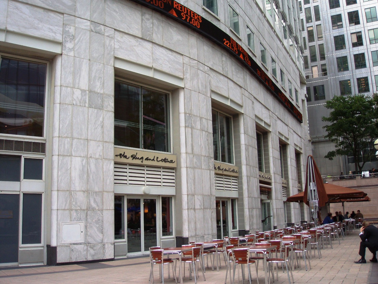 A chain bar by the tube station. Address: 30 South Colonnade. Owner: Stonegate Pub Company [Slug and Lettuce] (website); Town and City (former); Bay Restaurant Group (former); Whitbread/Laurel Pub Co (former). Links: Fancyapint Beer in the Evening